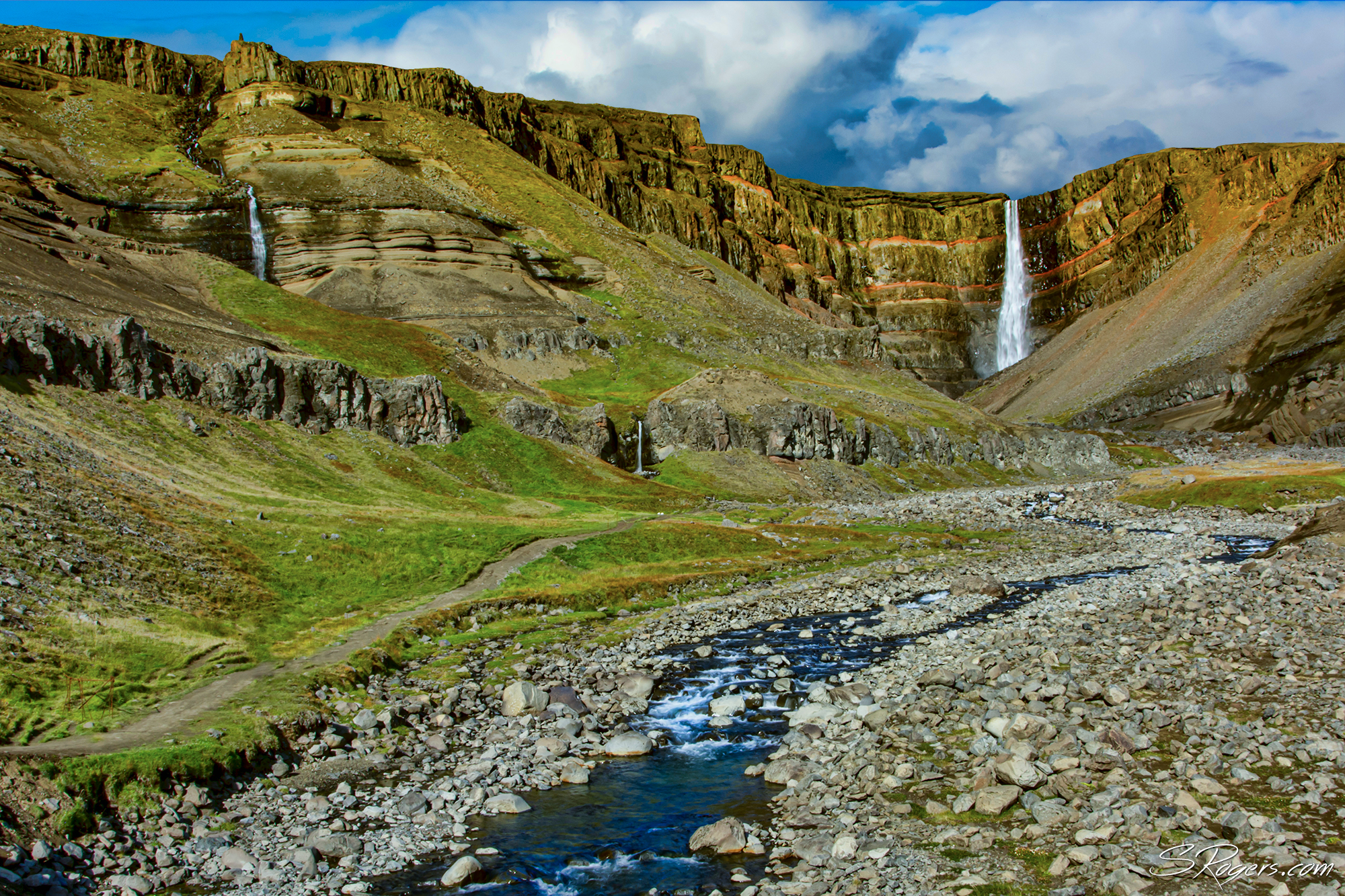 Hengifoss on a Sunny Autumn Day